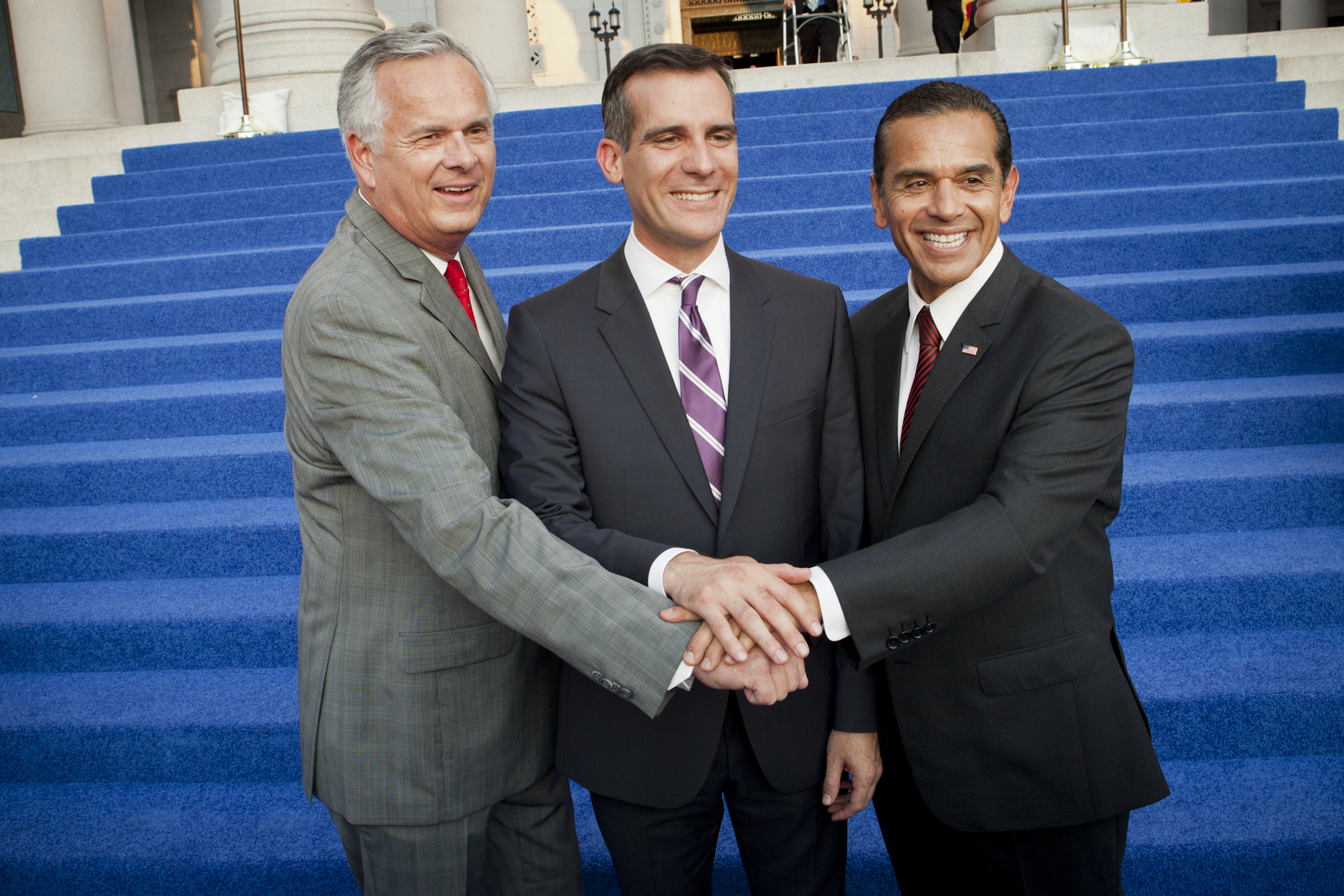 Mayor Eric Garcetti joins hands with former Mayor's Jim Hahn and Antonio Villaraigosa